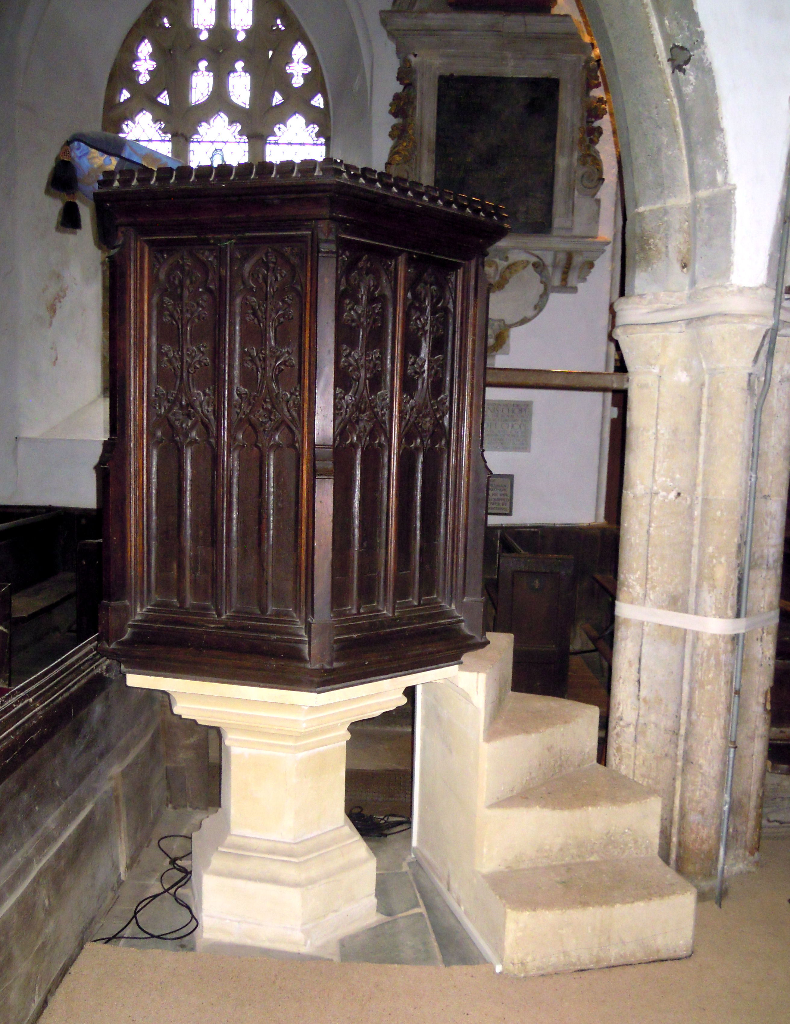 The pulpit at St Nectan's Church, Hartland in Devon